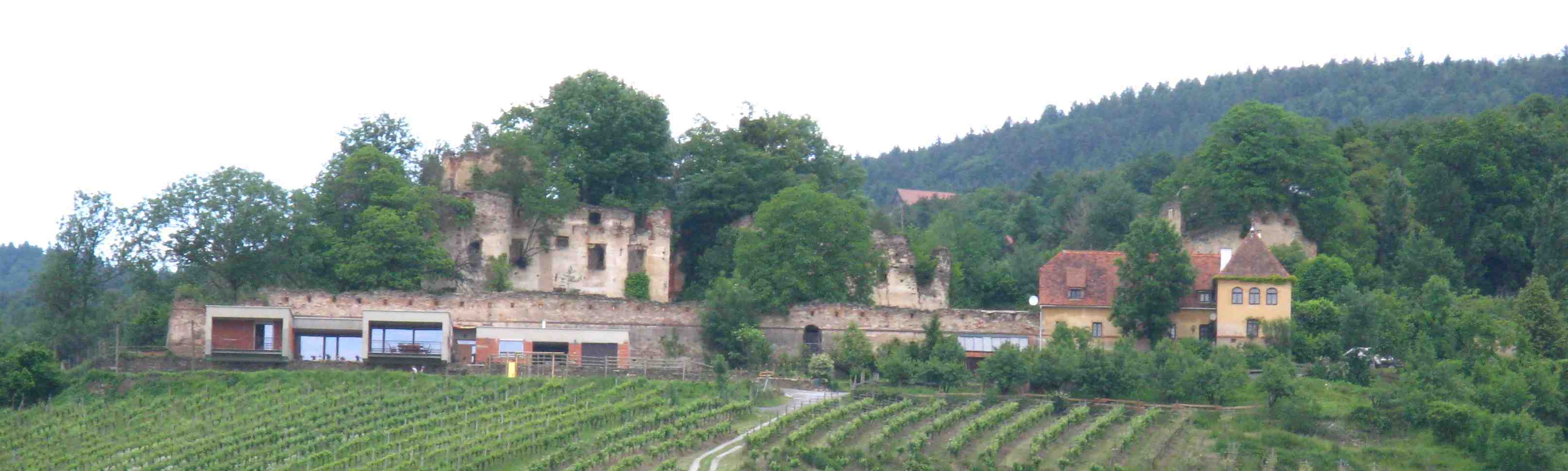 Castle Altschielleiten - Ansicht von Schielleiten